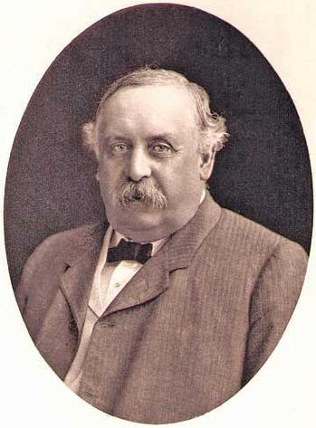 George Shattuck Morrison (1842-1903)